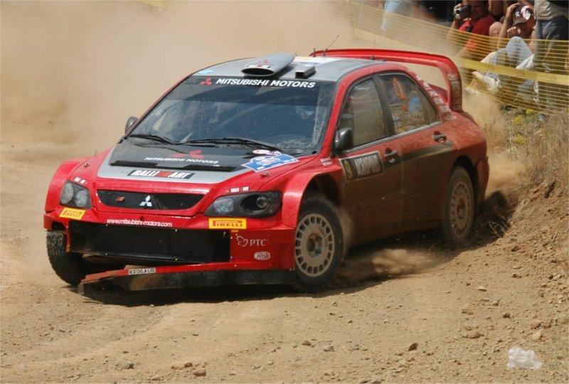 Harri Rovanperä driving a Mitsubishi Lancer WRC at the 2005 Acropolis Rally.